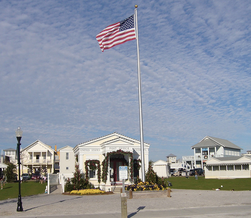 Seaside, Florida